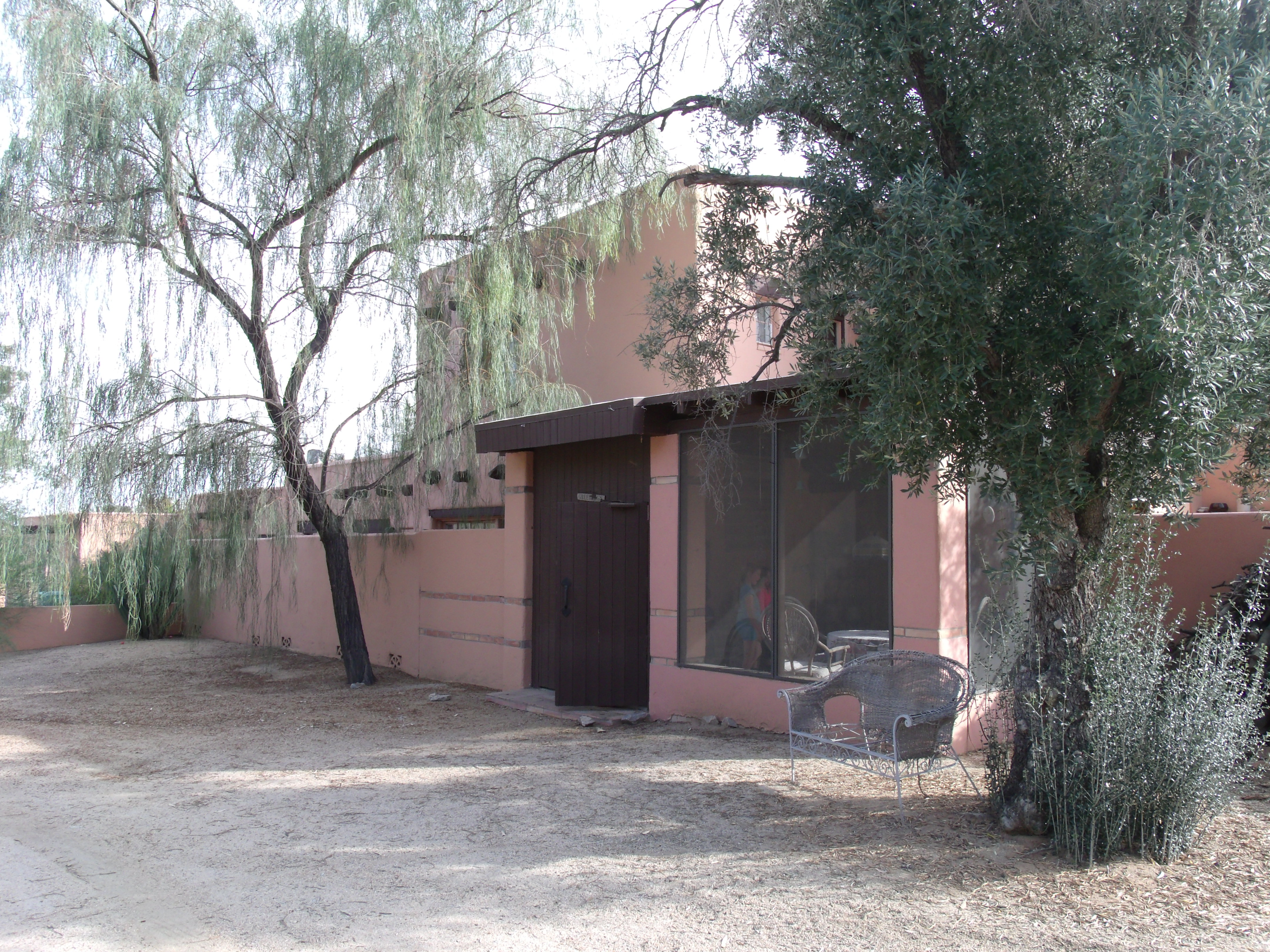 The historic Squaw Peak Inn was built in 1937 and is located at 4425 Horseshoe Road close to the east end of Squaw Peak (now Piestewa Peak) Mountain in Phoenix, Az. Among the celebrities who have stayed in or visited the Inn, which was originally named Squaw Peak Ranch, are Dick Powell, June Allison and Mamie Eisenhower. It served as the focal point for the 1987 made for TV movie “Probe: Plan Nine from Outer Space”. The Inn was used as a backdrop during the interview made to Phoenix Suns Charles Barkley by ABC’s prime Time Live on May 27, 1993. On January 12, 1995, the property was listed in the National Register of Historic Places, ref.: #94001537.